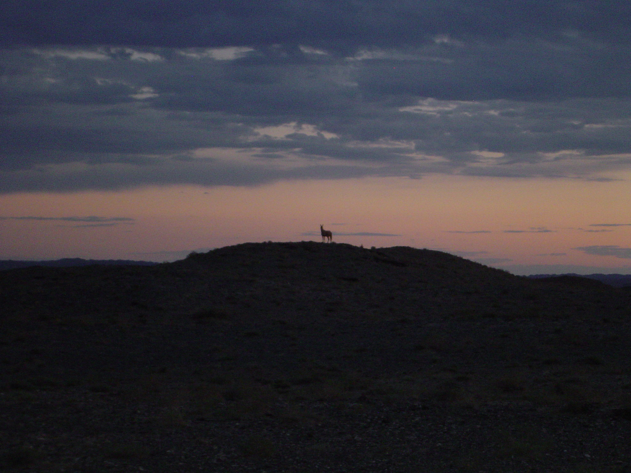 A Khulan, a Mongolian wild ass, in silhouette at sunset.